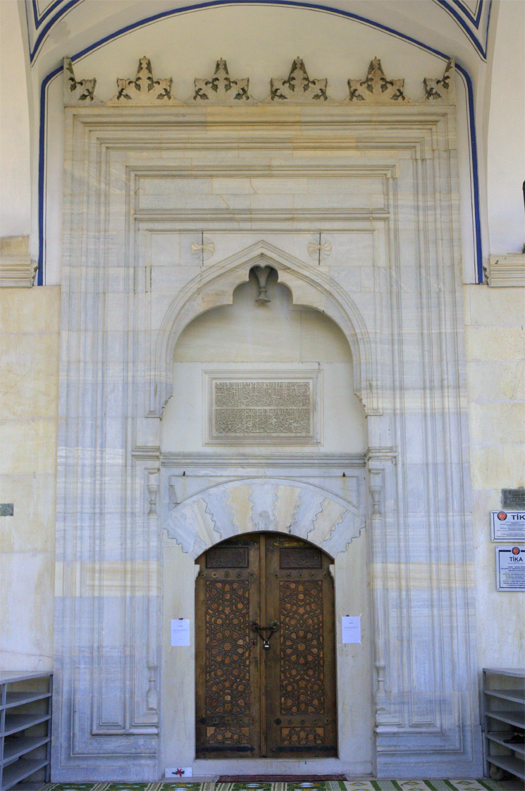 View to the main entrance to Mustafa Pasha`s Mosque Mustafa Pasha`s Mosque is located in the Old Bazaar of Skopje, Macedonia. It stands on a plateau above the old bazaar and is one of the most beautiful Islamic buildings in Macedonia. It was built in 1492 by Mustafa Pasha, vizier on the court of Sultan Selim I.